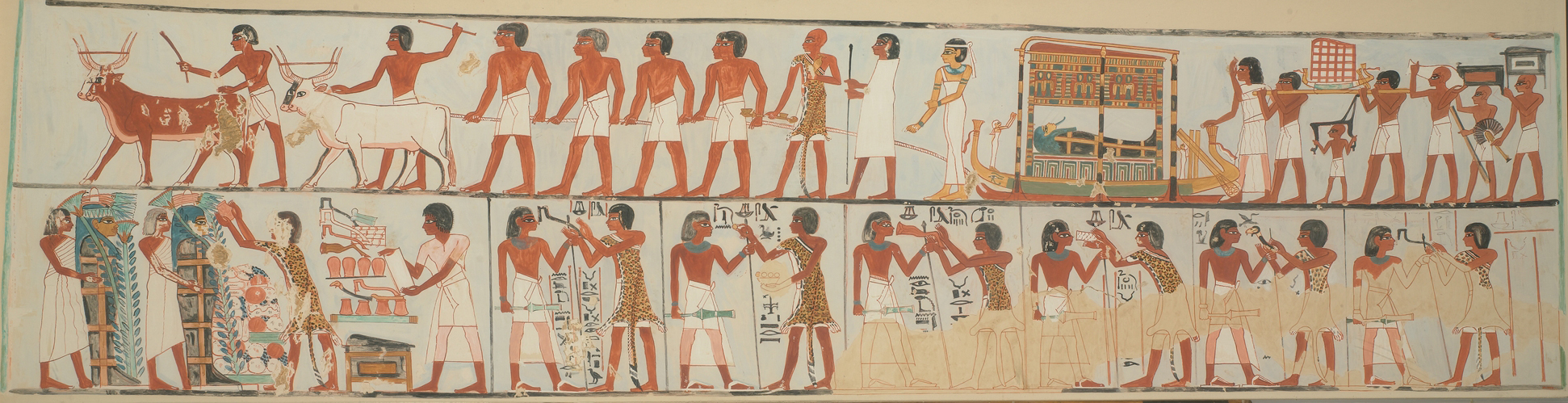 Facsimile, Pairy (TT 139), funeral